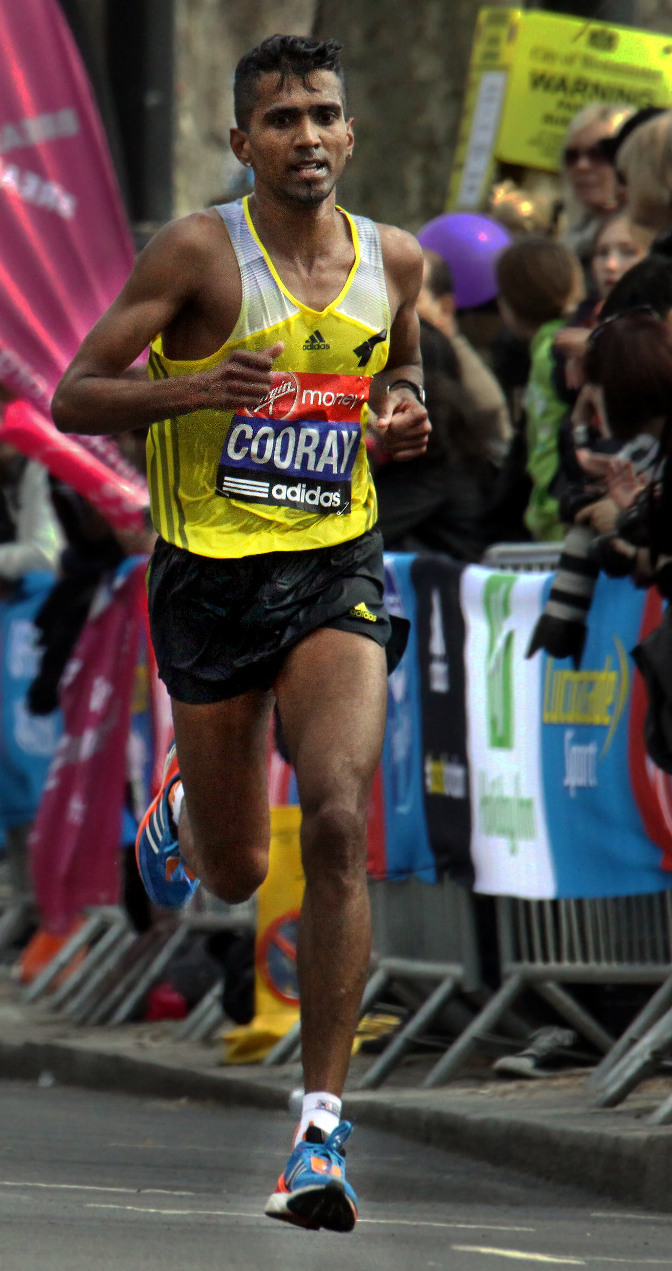 Anuradha Cooray during 2013 London Marathon, photographed at Victoria Embankment, London, Great Britain. The making of this file was supported by Wikimedia UK.